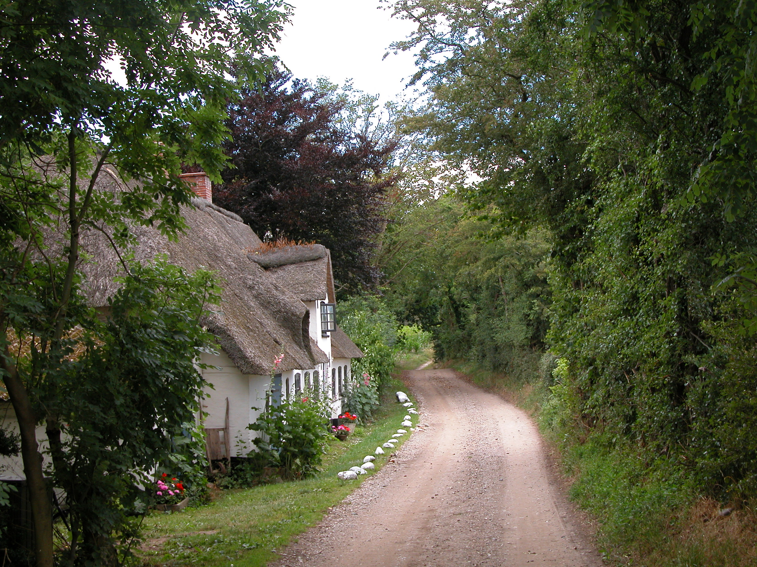 Old house of the islands Barsø - Denmark